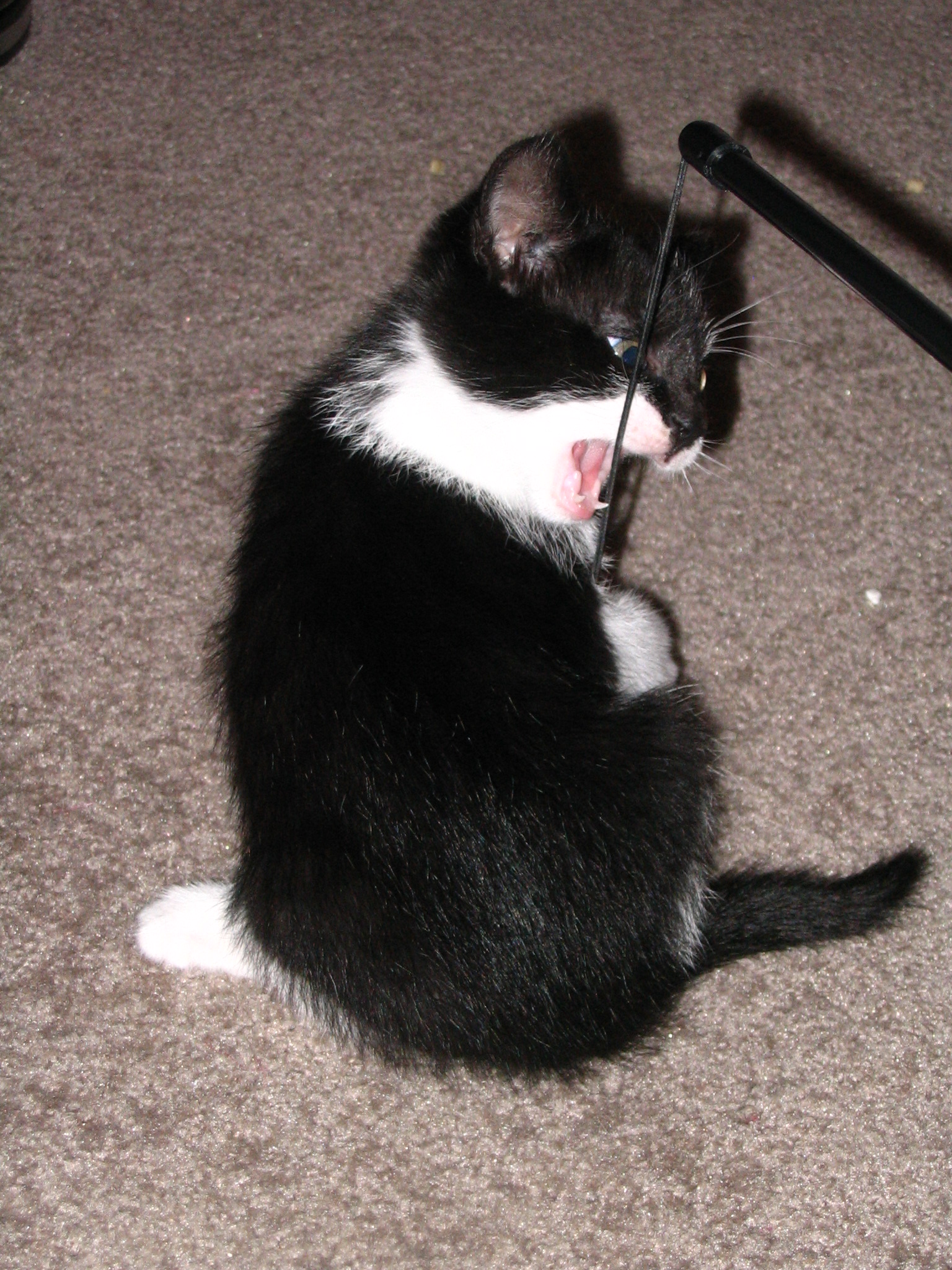 A black and white bicolor kitten, viewed from the back, turning its head around to the right to bite the lure of a cat toy. The same kitten featured in Image:Kitten_playing_with_furball_overhead.jpg.